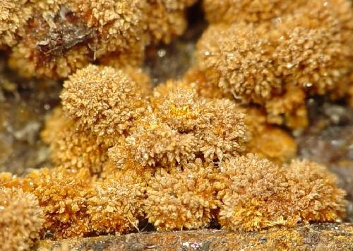 Karibibite Locality: Urucum mine (Tim mine; Córrego do Urucum pegmatite), Galiléia, Doce valley, Minas Gerais, Southeast Region, Brazil (Locality at ) Size: 3.5 x 2.1 x 1.2 cm. An excellent plate of radiating tan crystals of Karibibite, forming spherical sprays in the 2-3 mm range. A rare iron aresenic oxide, this is a fine specimen from this locality. Ex. Charlie Key.